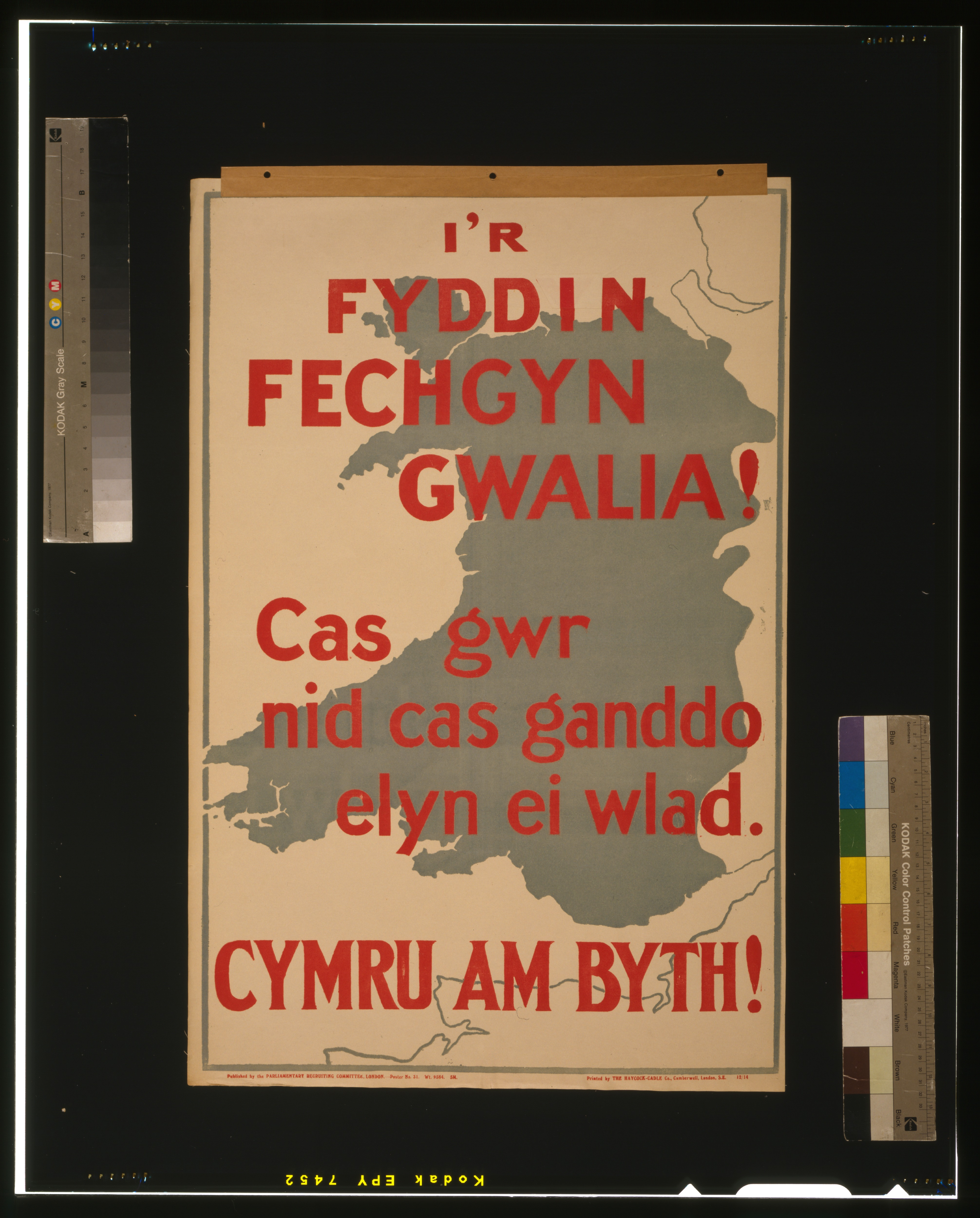 Title: I'r fyddin fechgyn gwalia! Cas gwr nid cas ganddo elyn ei wlad. Cymru am byth! Abstract: Poster showing a map of Wales, with text in Welsh. Physical description: 1 print (poster) : lithograph, color ; 74 x 48 cm. Notes: Wt. 9584. 5M. 12/14.; Printed by The Haycock-Cadle Co., Camberwell, London, S.E.; Poster no. 31.; Title from item.